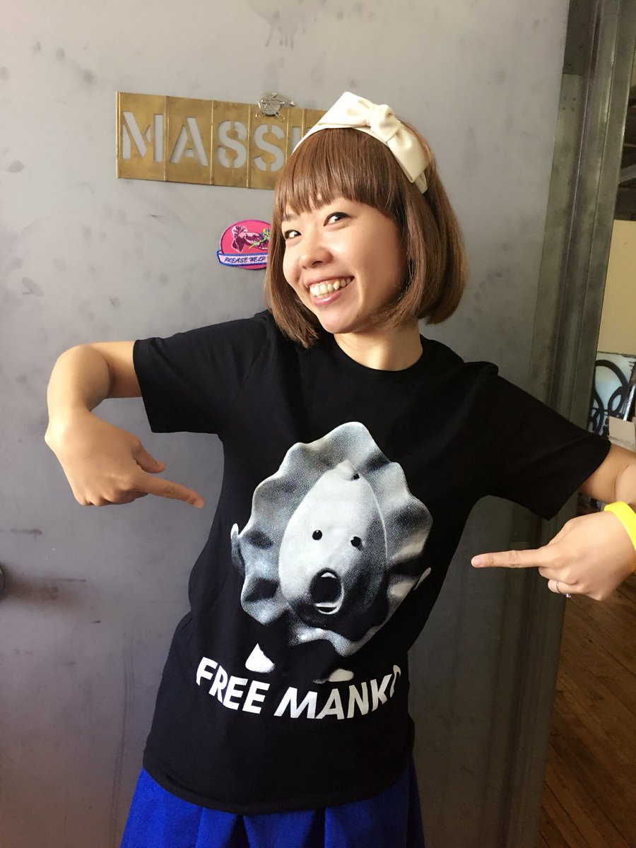 Took the picture at Massive Goods, New York. Contributor got permission for upload from author.